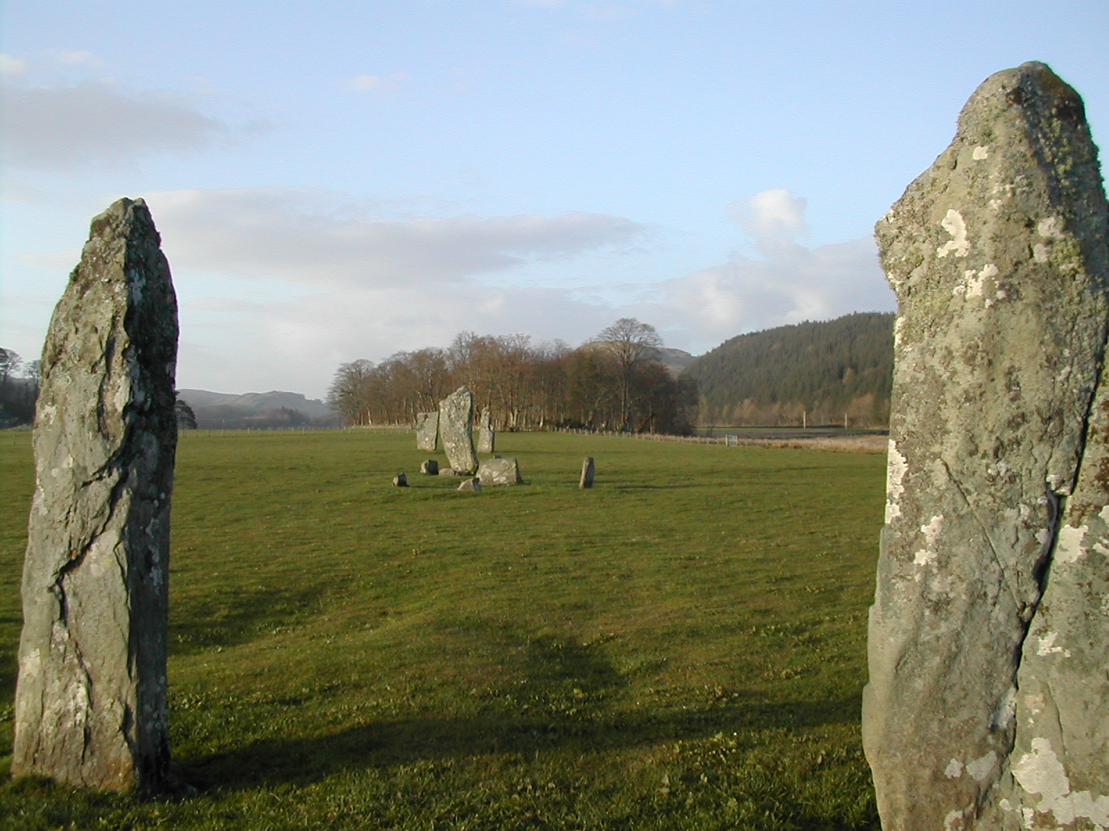 Nether Largie standing stones in Kilmartin, Argyll